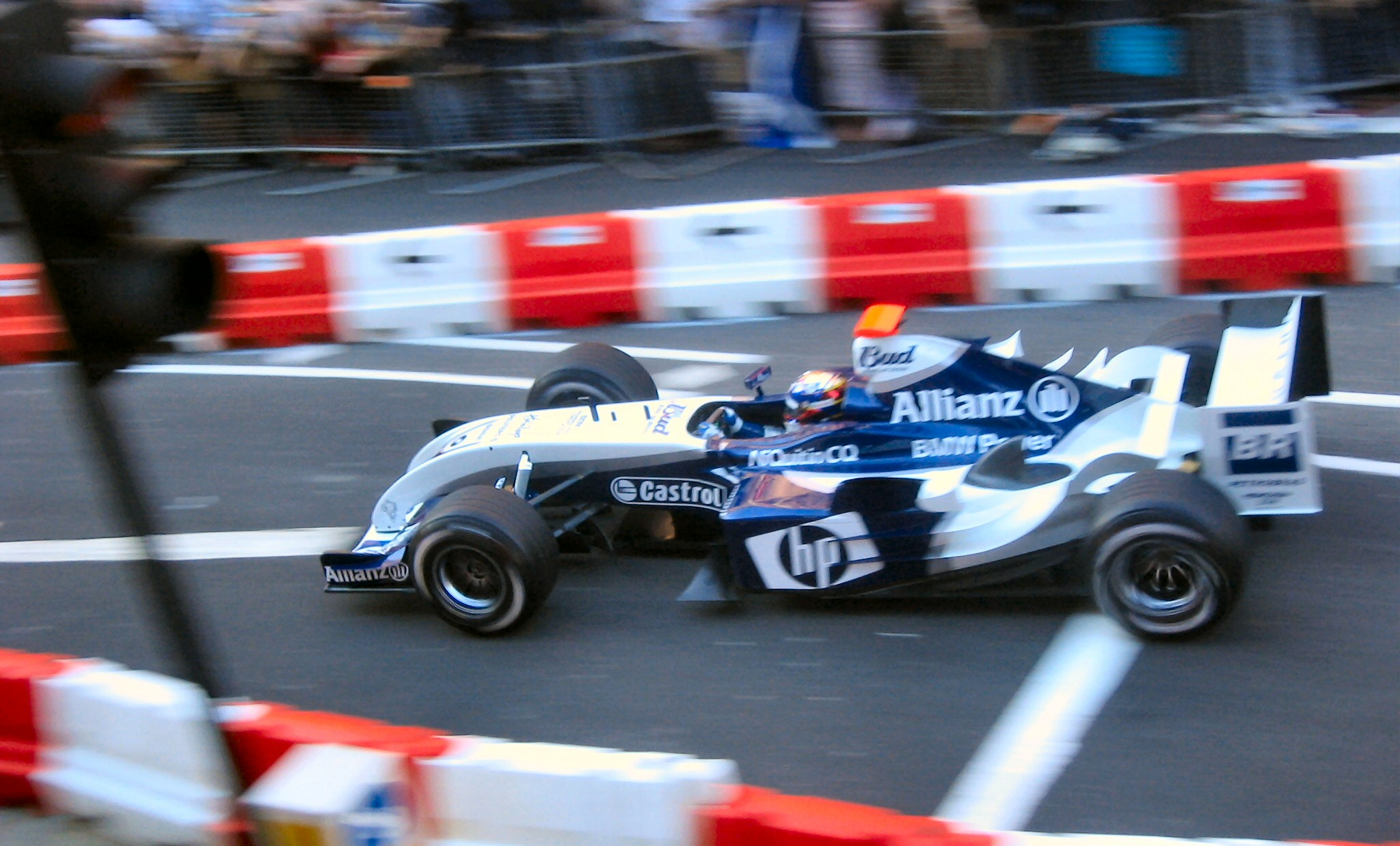 BMW-Williams F1 car on Regent Street, London.